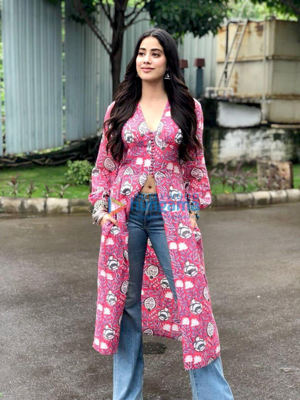 Janhvi Kapoor snapped at Film City, Goregaon, Jun 29, 2018